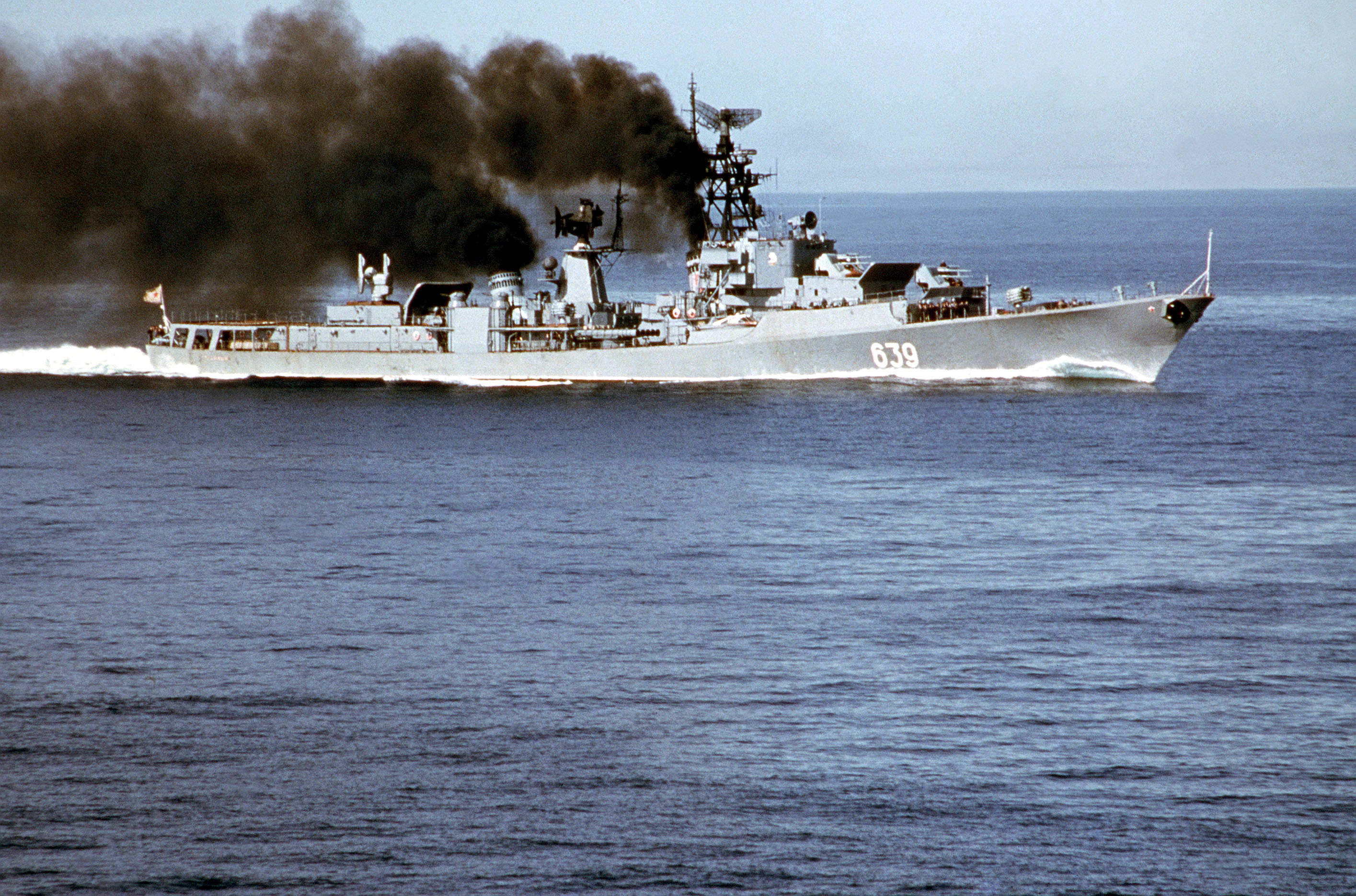 A starboard view of the Soviet Project 57A large ASW ship (Kanin class destroyer by NATO) Gremyashchiy underway.